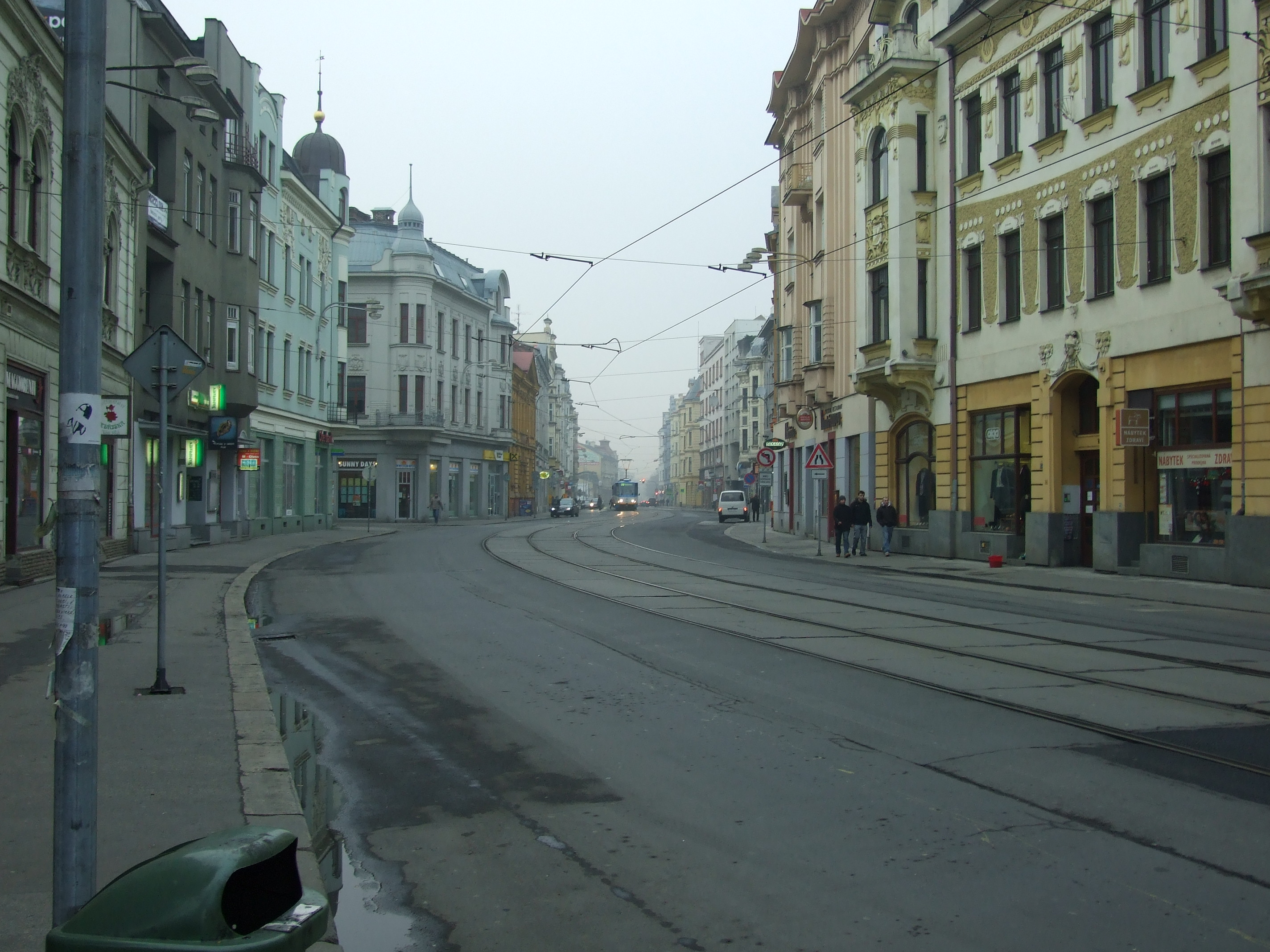 Nádražní street in Ostrava, saturay afternoon. Nearly no traffic. Czech republic, Moravia-Silesia regionhelp